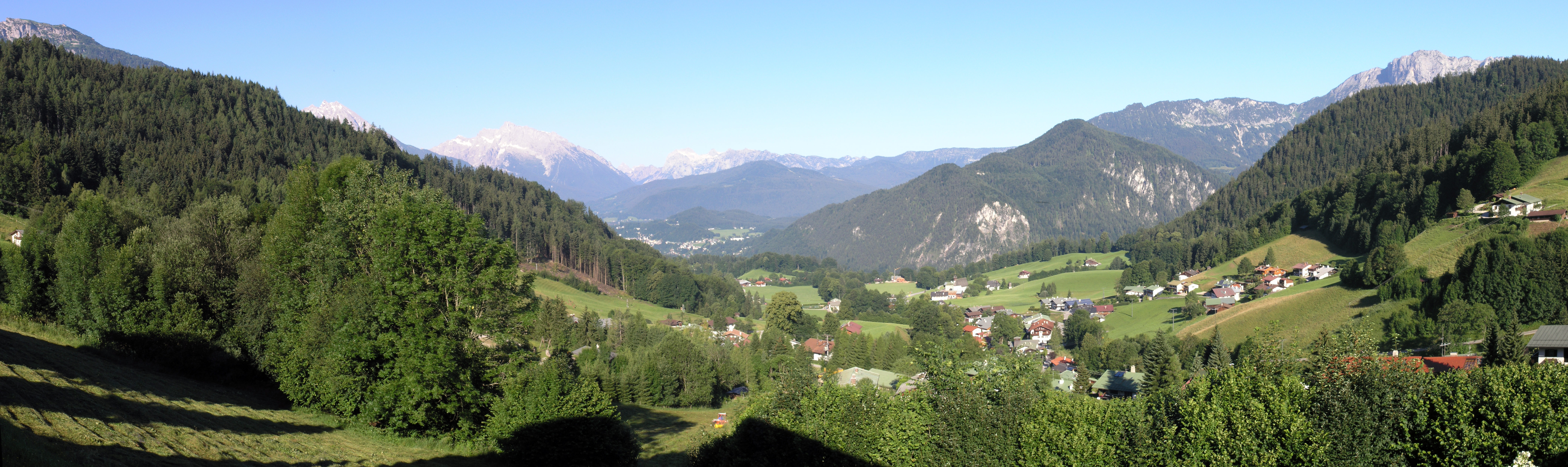 A view in the morning down to the city of Berchtesgaden in Germany. This is a panorama shot, stitch from multiple shots. Very difficult to see in the regular resolution, but on the mountain top in the upper left corner is the Kehlstein Haus, which can also be seen here.